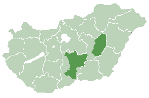 Kunsag map